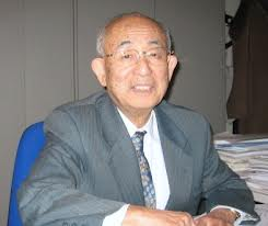 Portrait image of Mr Akira Kodate, taken in Milan at his operating desk.